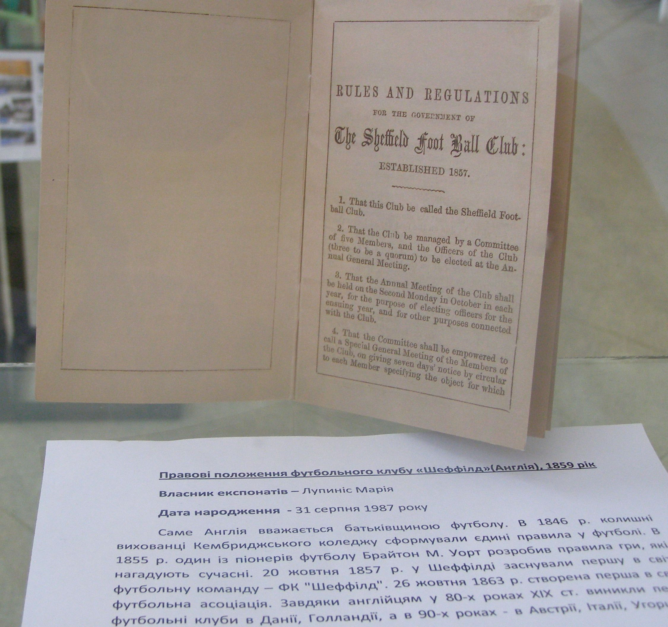 The Sheffield Rules, written by Nathaniel Creswick and William Pres and tthen adopted as the official association football rules. This is the first edition of the book, 1859.